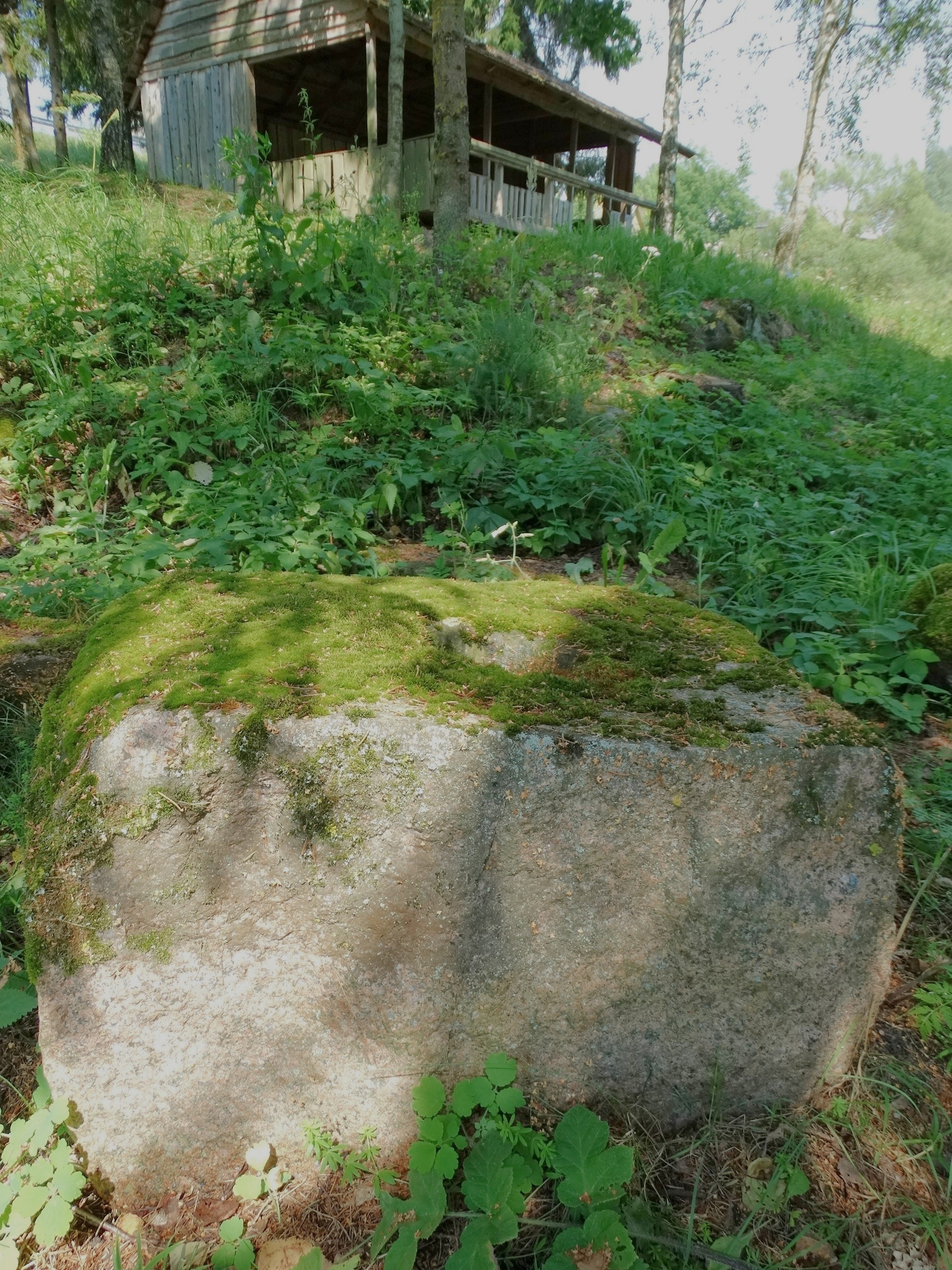 Mythological stone, Tauragnai, Utena District, Lithuania